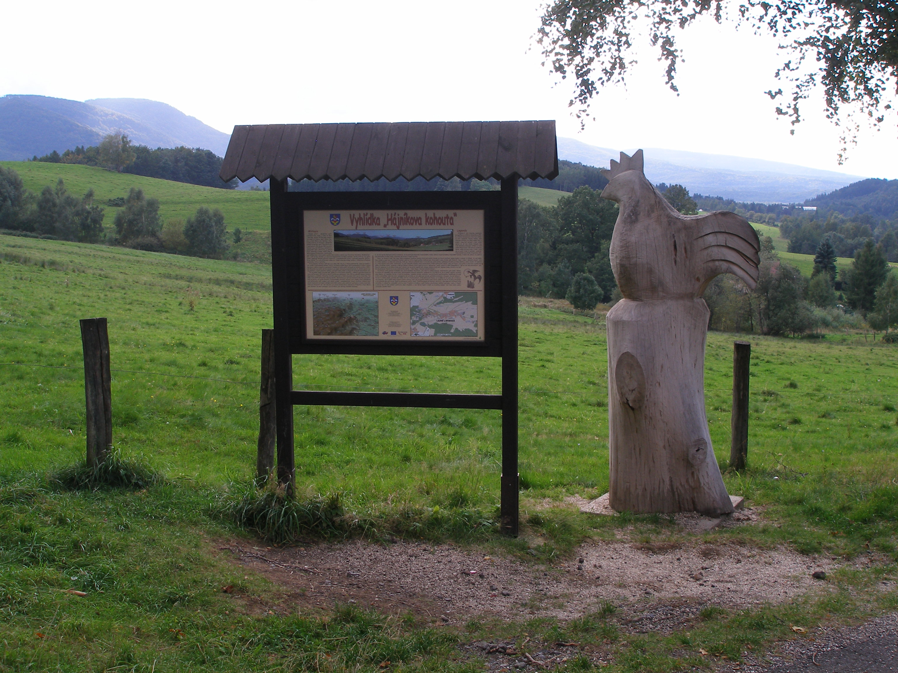 Vyhlídky nad Libverdou Vyhlídka Hájníkova kohouta (all view).